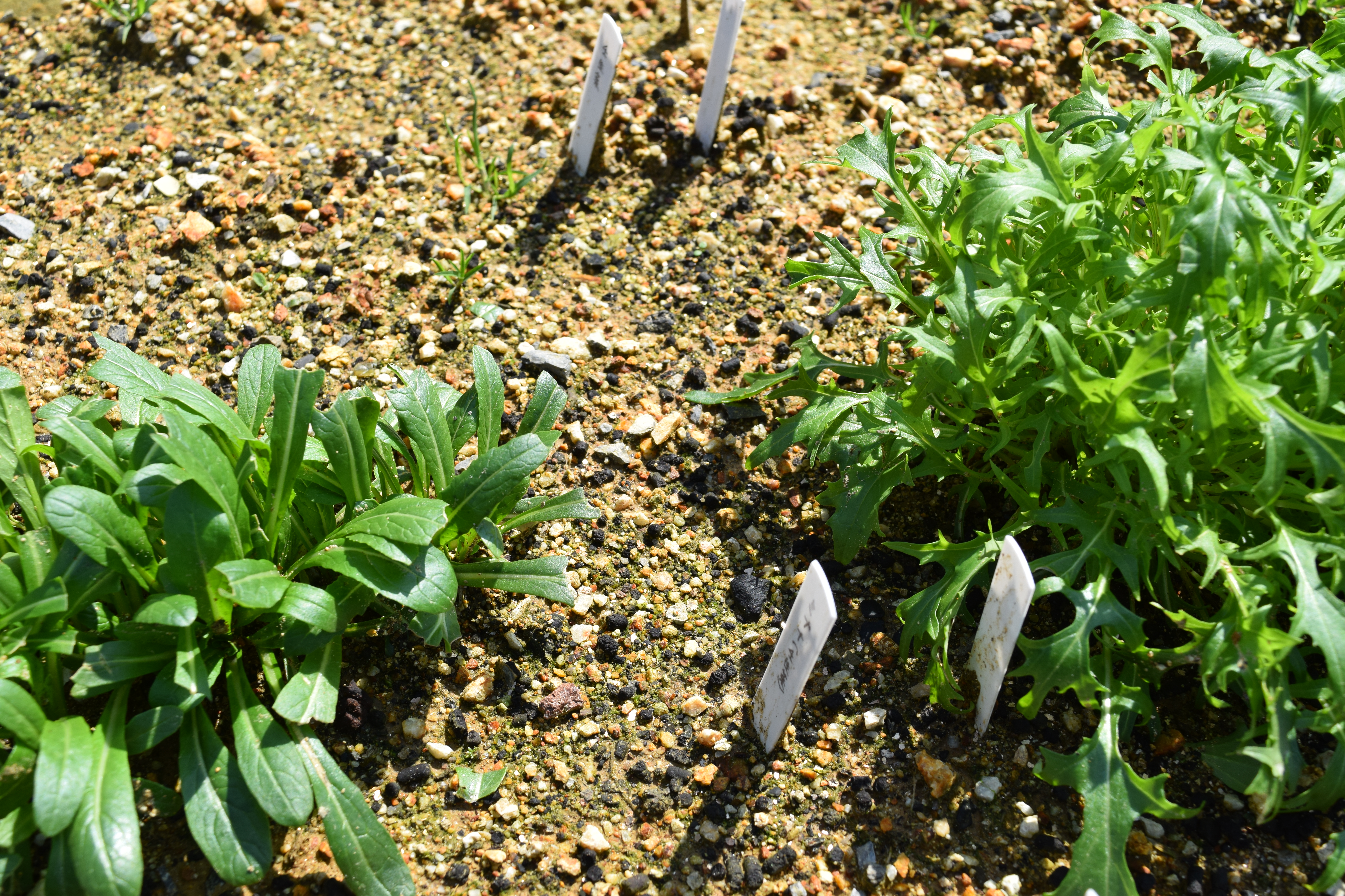 Mibuna (Brassica rapa var. laciniifolia subvar. oblanceolata, left) and Mizuna (Brassica rapa var. laciniifolia, right).